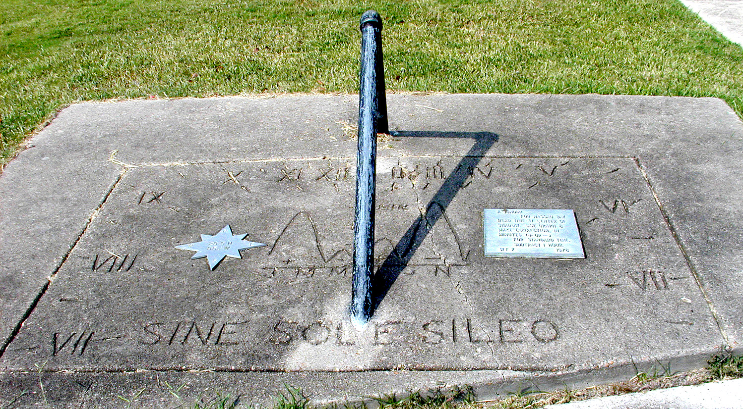 This sundial is in a Nassau Bay, Texas park. In the early days several astronauts lived in Nassau Bay. The sundial works.